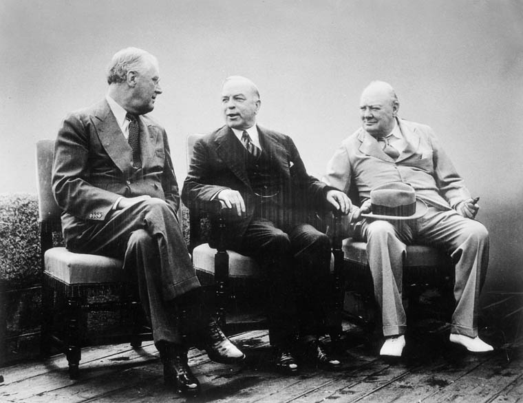 President Franklin D. Roosevelt, Rt. Hon. W.L. Mackenzie King and Rt. Hon. Winston Churchill at the Citadel during the Quadrant Conference